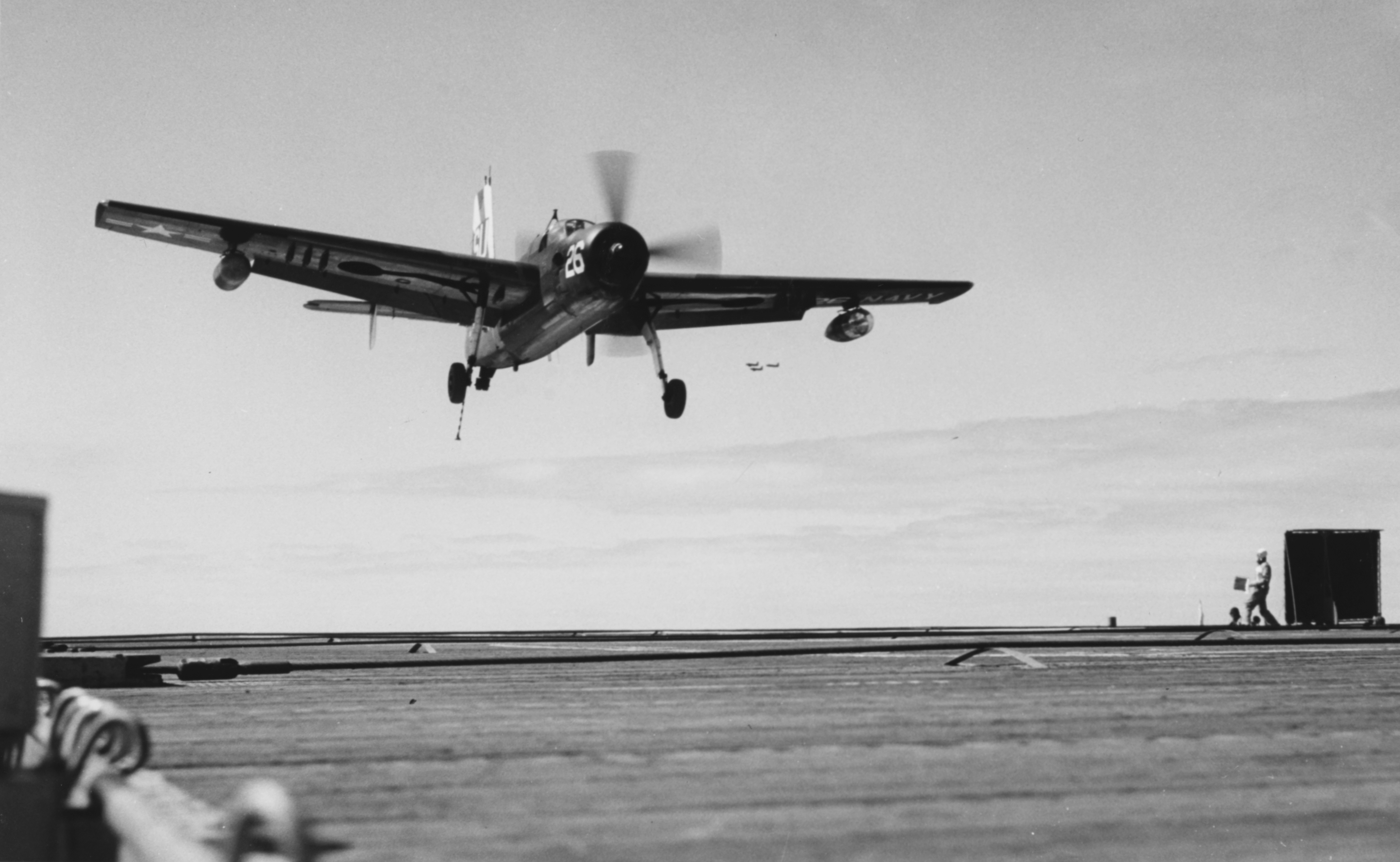 A U.S. Navy Grumman AF-2S Guardian from Anti-Submarine Squadron 37 (VS-37) "Rooster Tails" landing on board the escort carrier USS Badoeng Strait (CVE-116) on 1 April 1954. This was the ship's 20,000th landing.